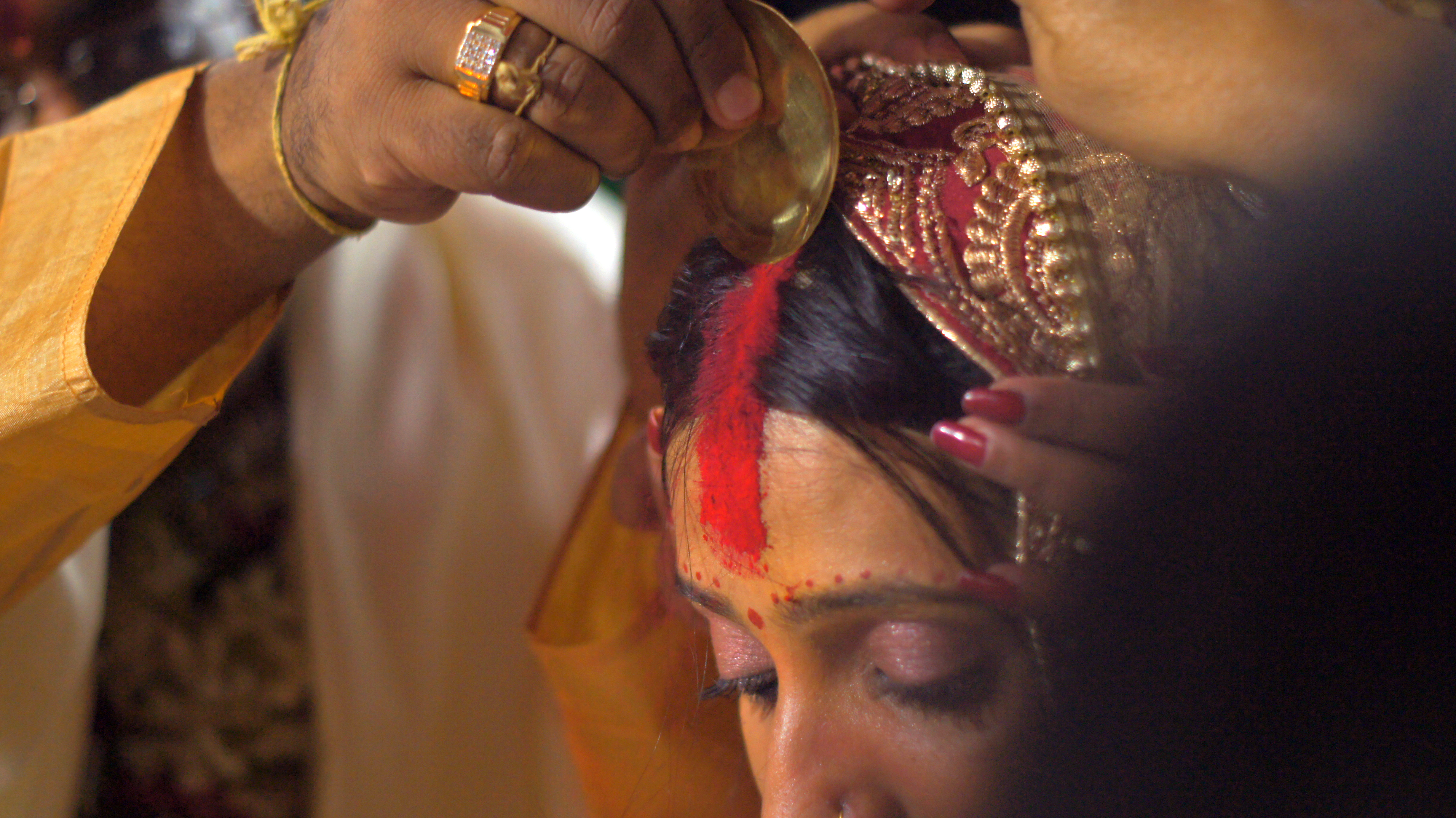 The ritual of applying the Sindoor as part of a Hindu Indian Wedding